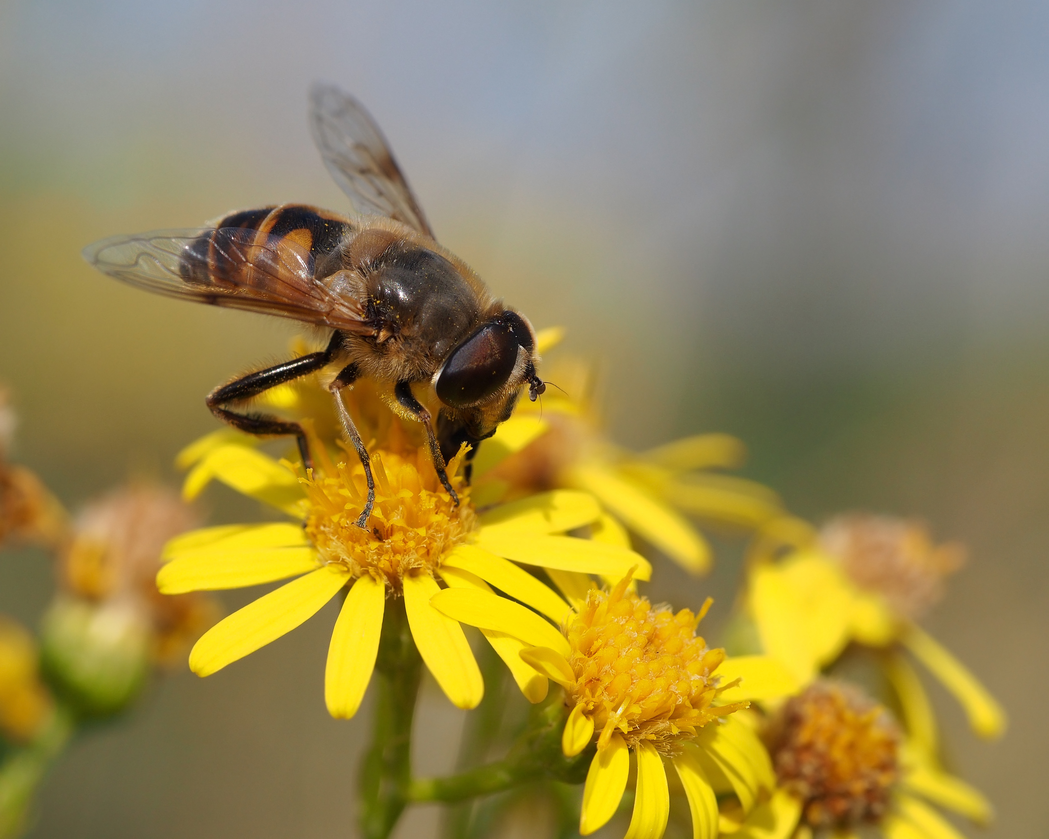 Drone fly (Eristalis tenax) on Ragwort (Jacobaea vulgaris)